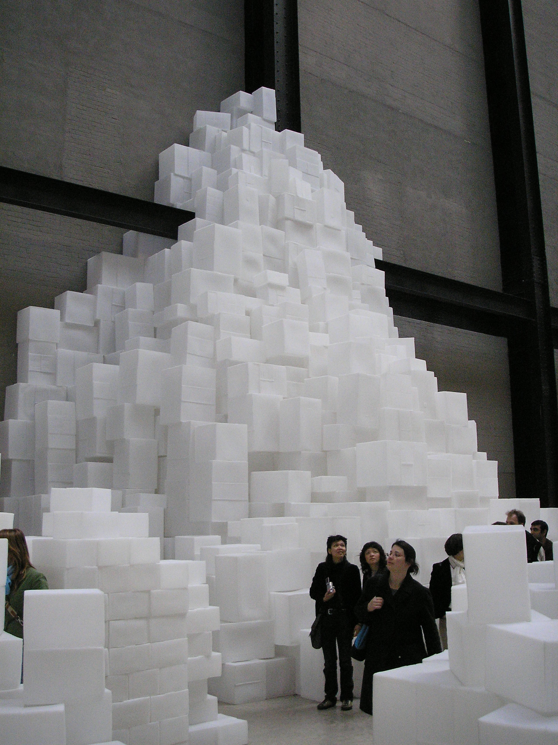 Embankment by Rachel Whiteread at the Tate Modern in London.